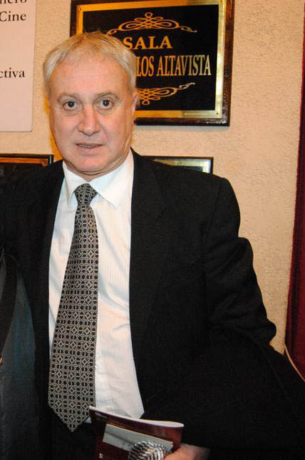 Former Argentine footballer Norberto Alonso in the Centro Cultural York of Olivos, Buenos Aires.